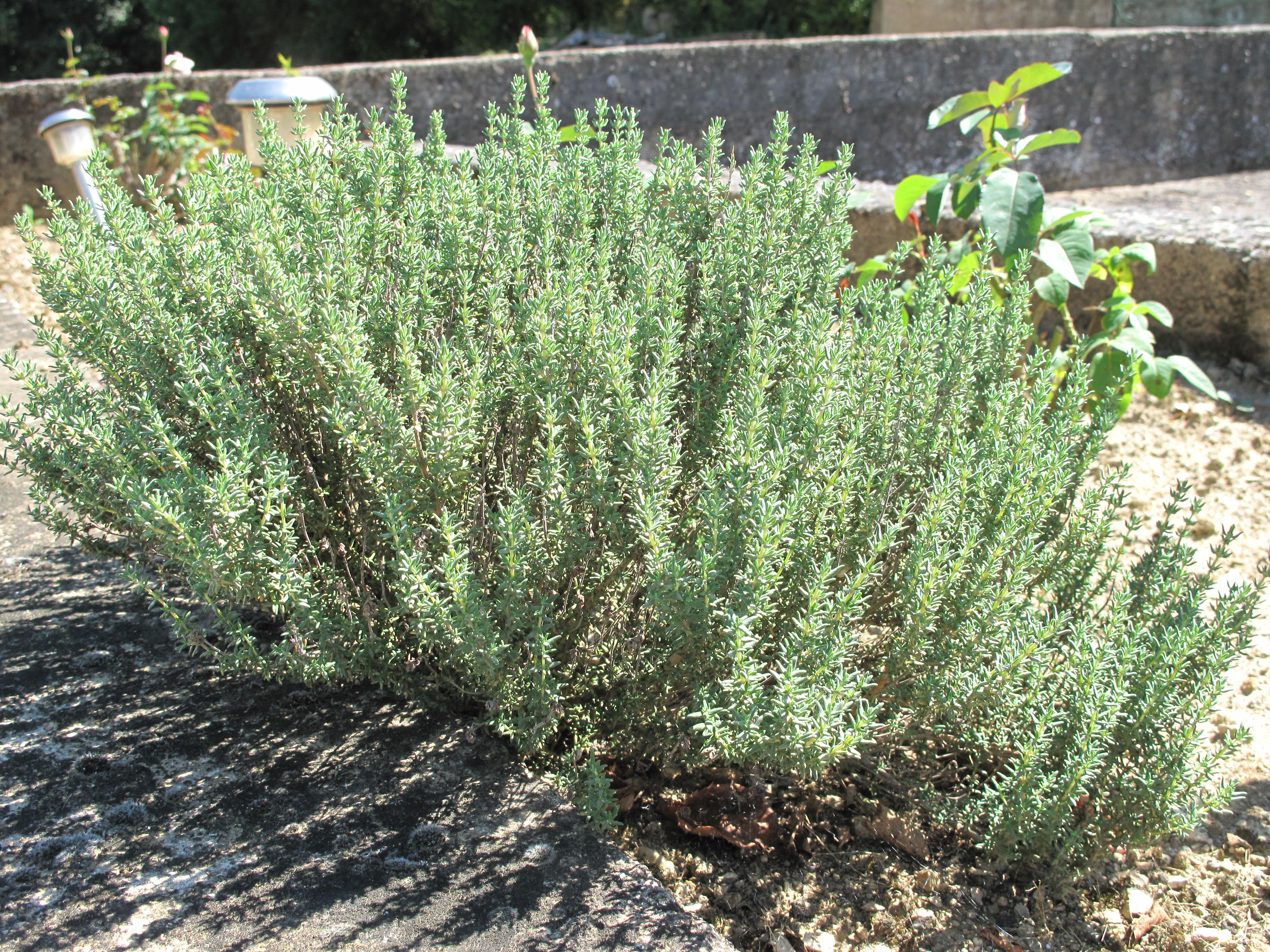 Spontaneous growth of plants of thymus in a garden in Burgundy. Clayous soil.